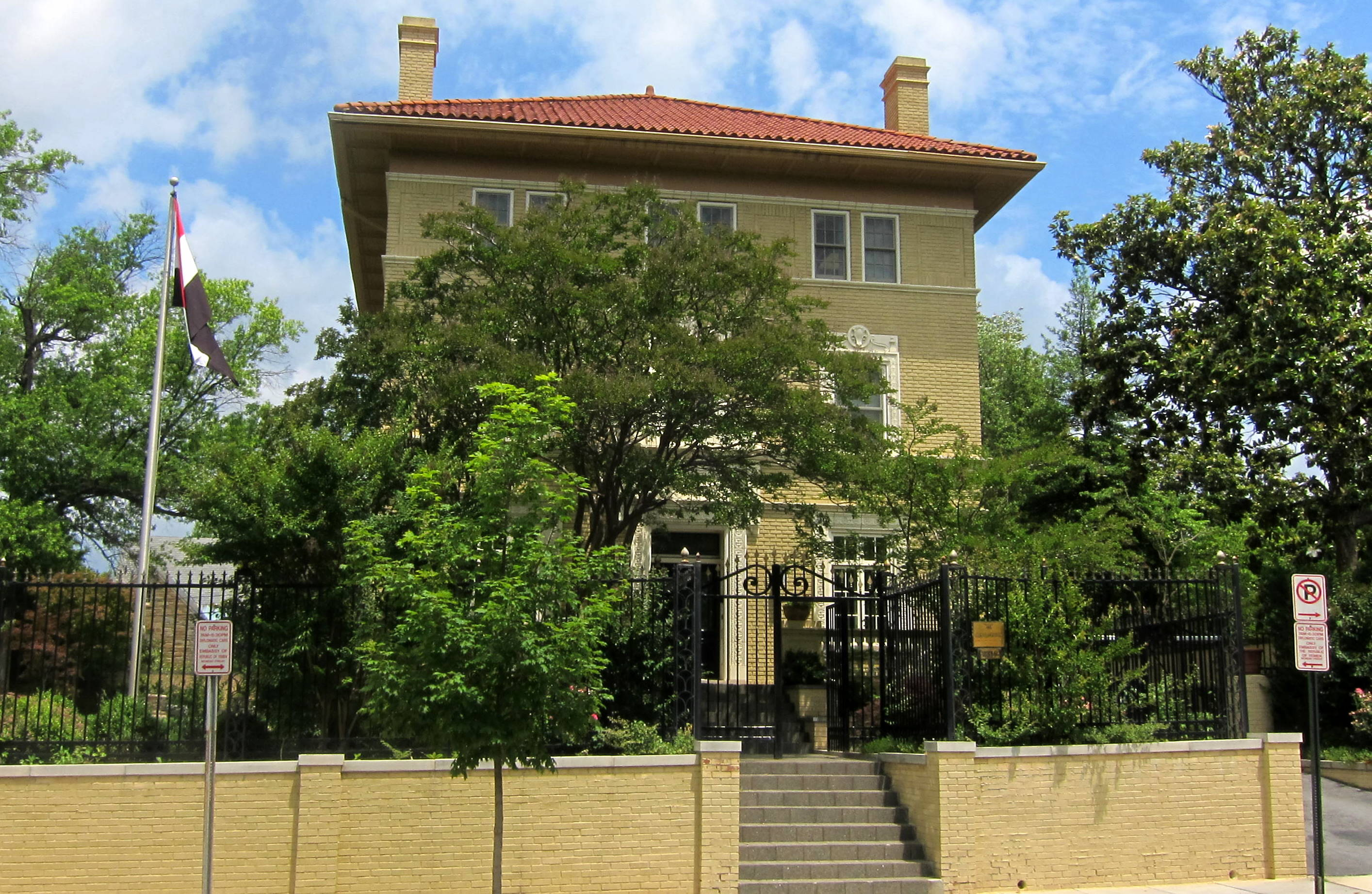 The Embassy of Yemen located at 2319 Wyoming Avenue, N.W., in the Sheridan-Kalorama neighborhood of Washington, D.C. Built as a private residence in 1916, the Mediterranean Revival-style building is designated as a contributing property to the Sheridan-Kalorama Historic District, listed on the National Register of Historic Places in 1989. Previous occupants include James A. Cahill, Wrisley Brown, the Embassy of Jordan, and the Jordan Information Bureau.